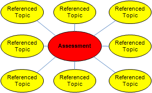 Knowledge Transferring Assessment: Principal Design